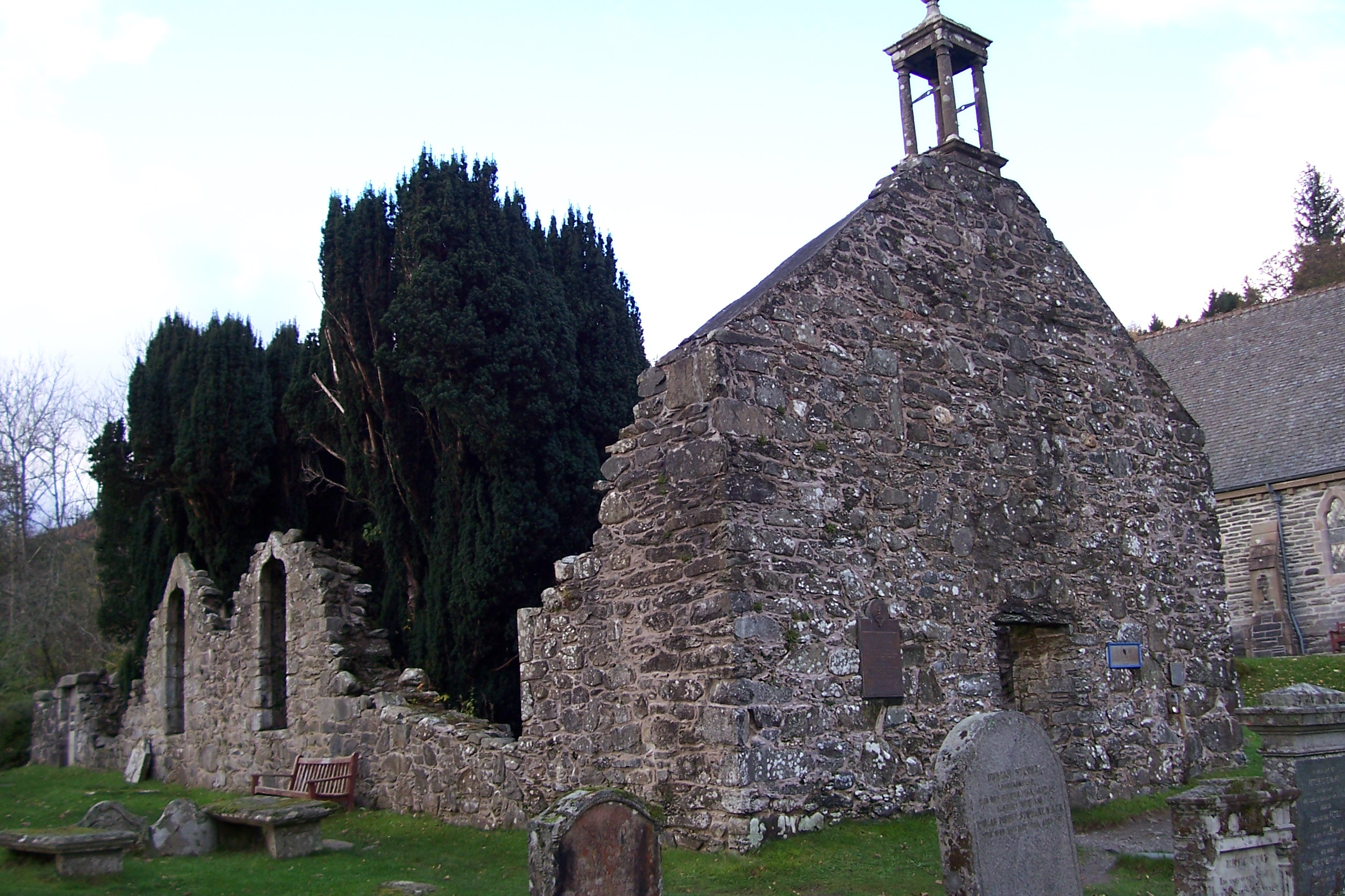 Balquhidder Church, burial place of Rob Roy MacGregor.